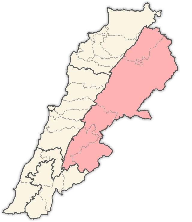 self-made